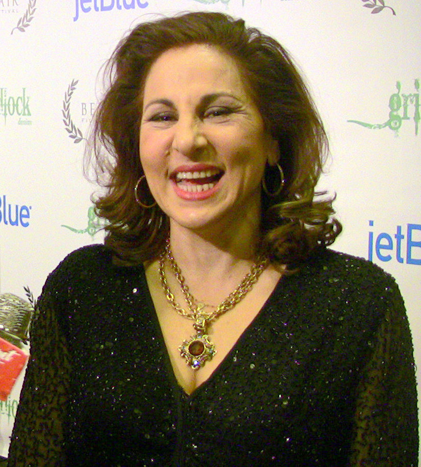 Kathy Najimy at the Bel-Air Film 2011 Festival Red Carpet Opening Night.